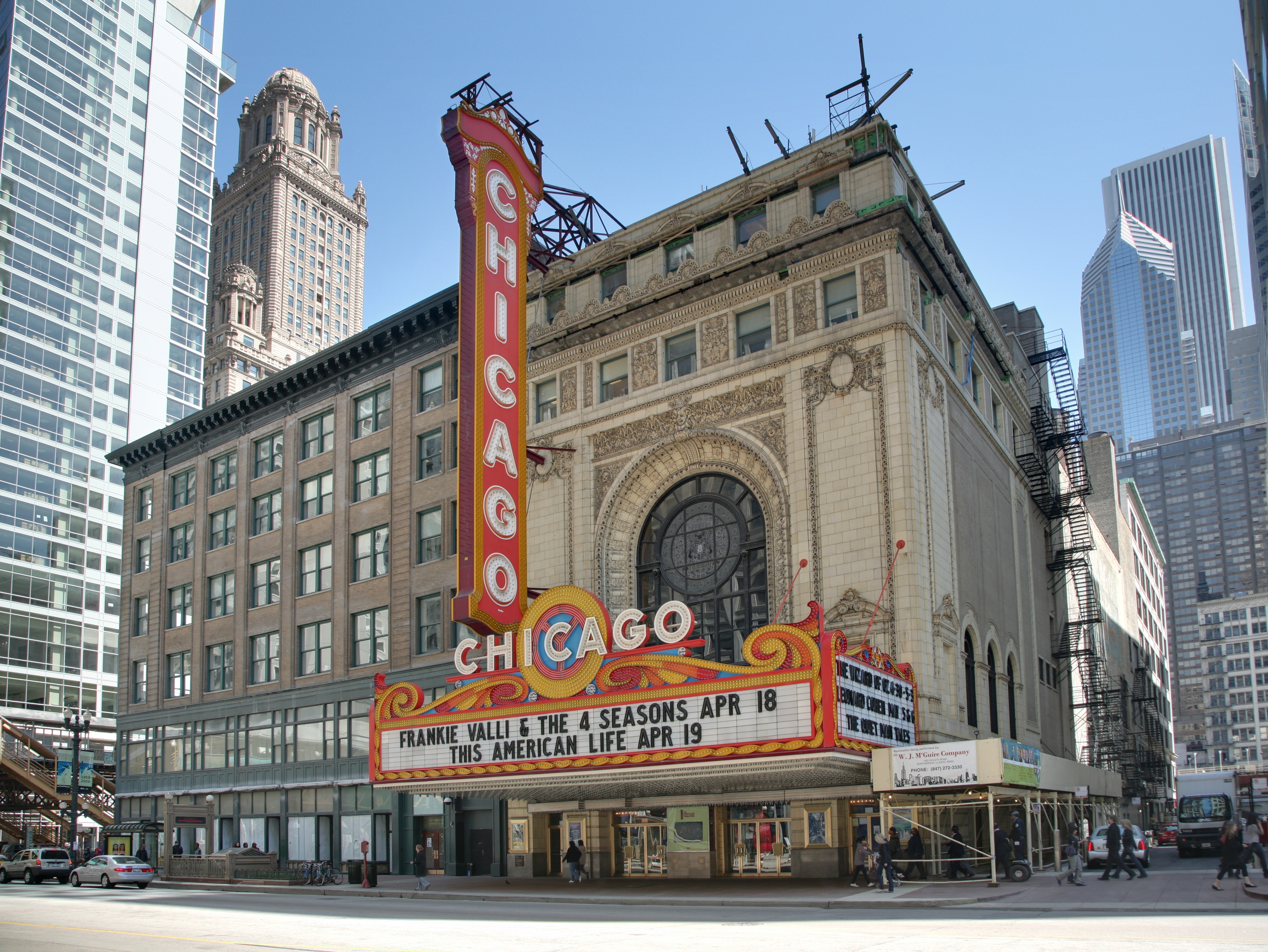 Chicago Theatre. Exposure blended from three shots. This image was created with Hugin.